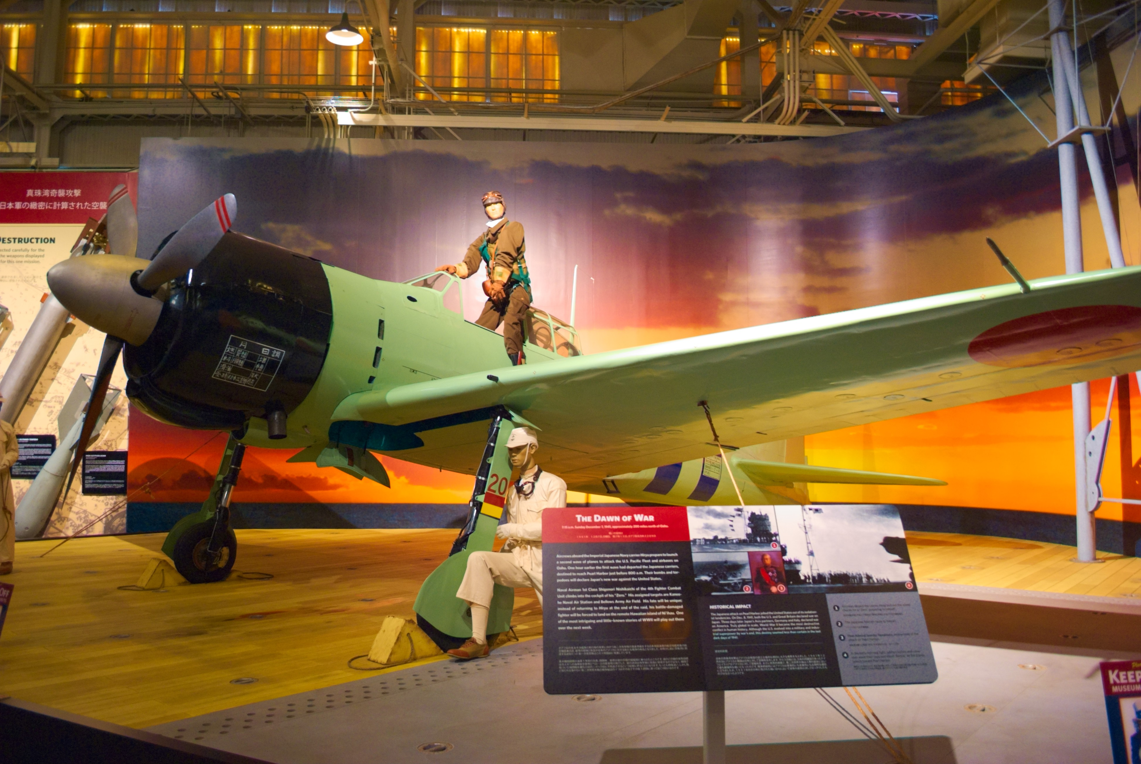 A6M2 Model 21 Zero Manufacture Number 500. Used to depict BII-120 which pilot Shigenori Nishikaichi flew in the attack Pearl Harbor. The original BII-120 was destroyed with some fragments remaining that are also on exhibit at Pacific Aviation Museum, Pearl harbor.